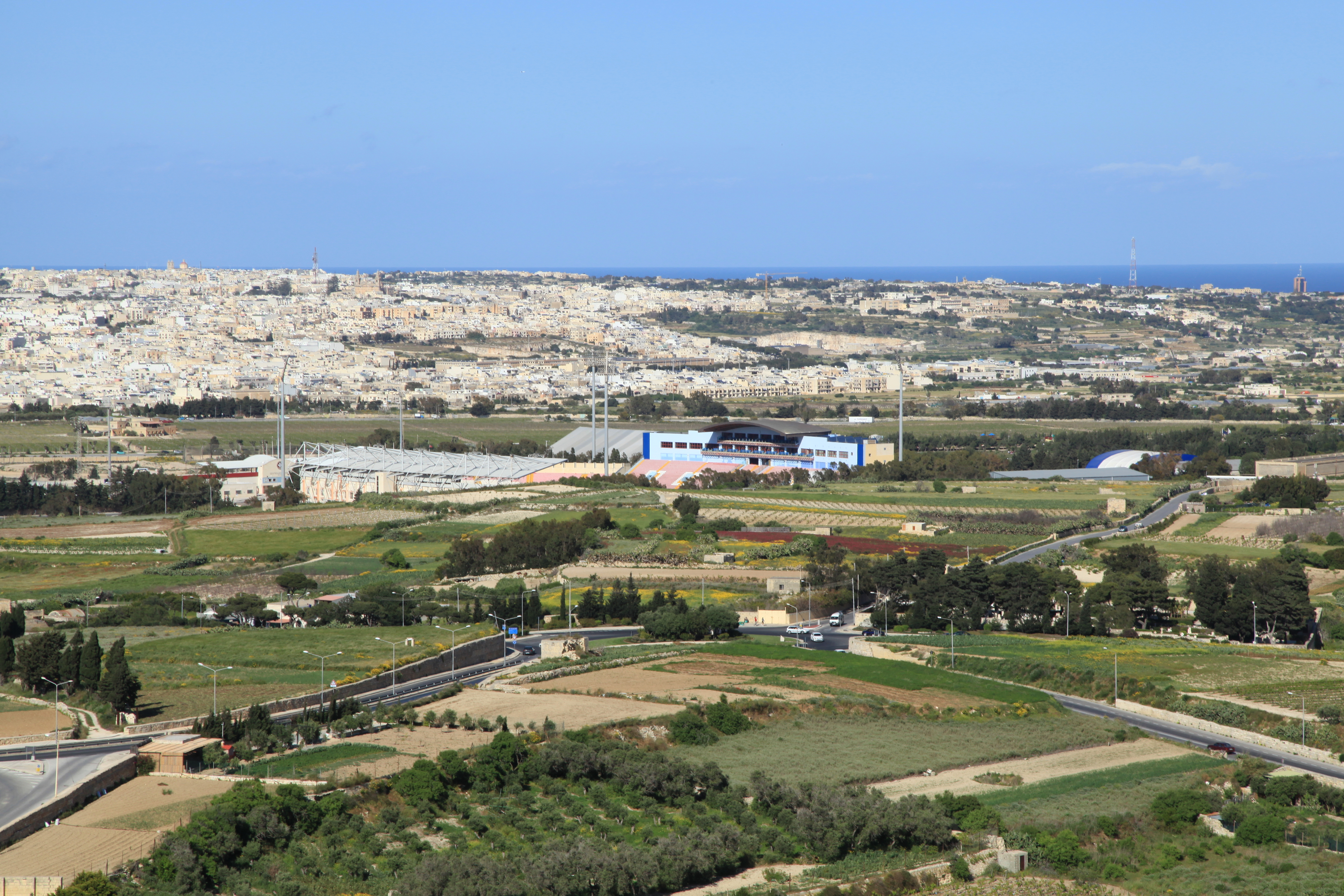 View from Pjazza tas-Sur to Mosta and Attard in Mdina, Malta